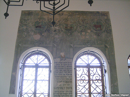 Synagogue in Inowłódz